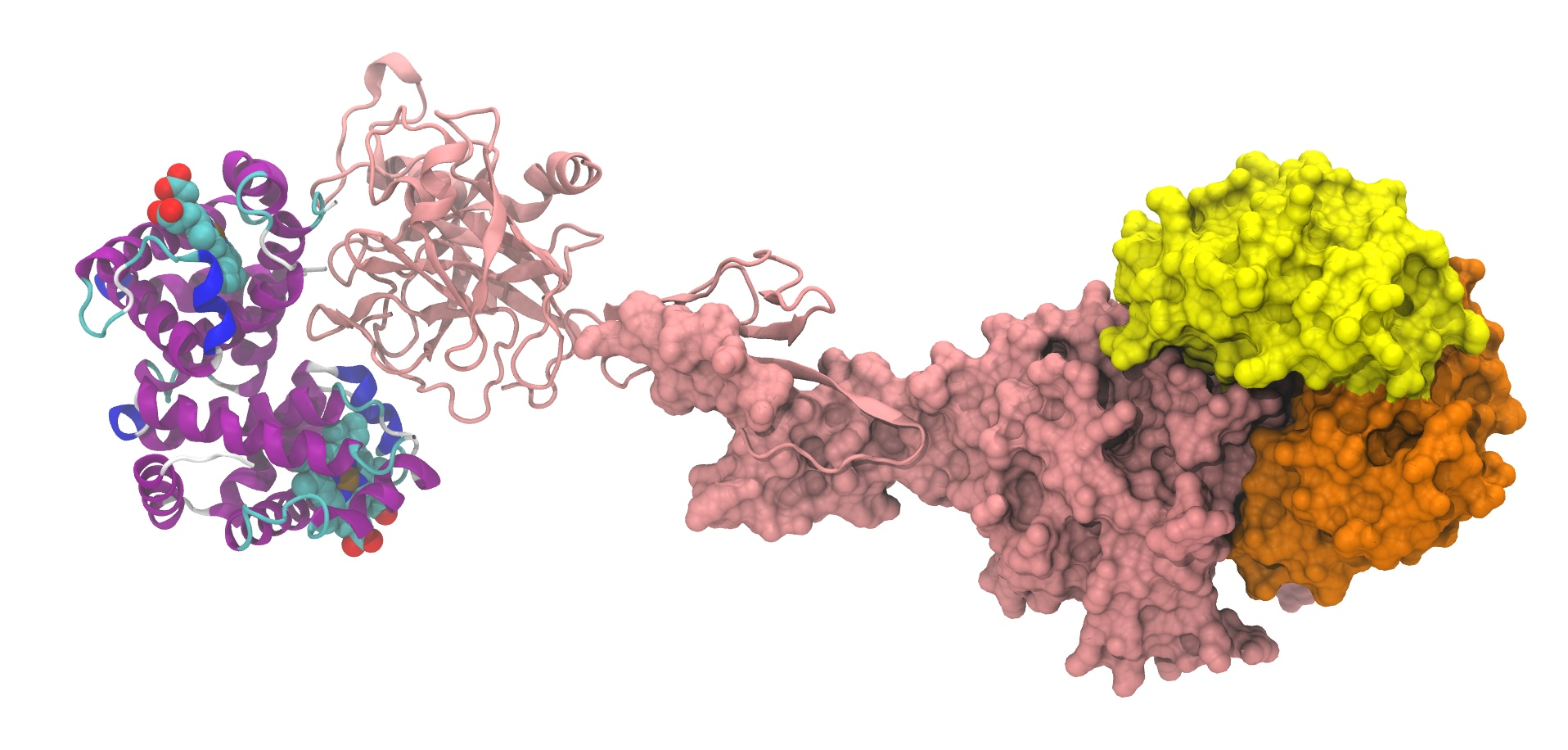 ribbon/surface model of α,β-hemoglobin/haptoglobin hexamer complex (Hb purple/yellow/orange, Hap pink) from pig, with heme ligand as VDW model, after PDB 4F4O. Ref.: Andersen, C.B.F., Torvund-Jensen, M., Nielsen, M.J., et al., Pedersen, J.S., Andersen, G.R., and Moestrup, S.K., in 2012 in a paper entitled "Structure of the Haptoglobin-Haemoglobin Complex" in Nature This 3D molecular image was created with VMD